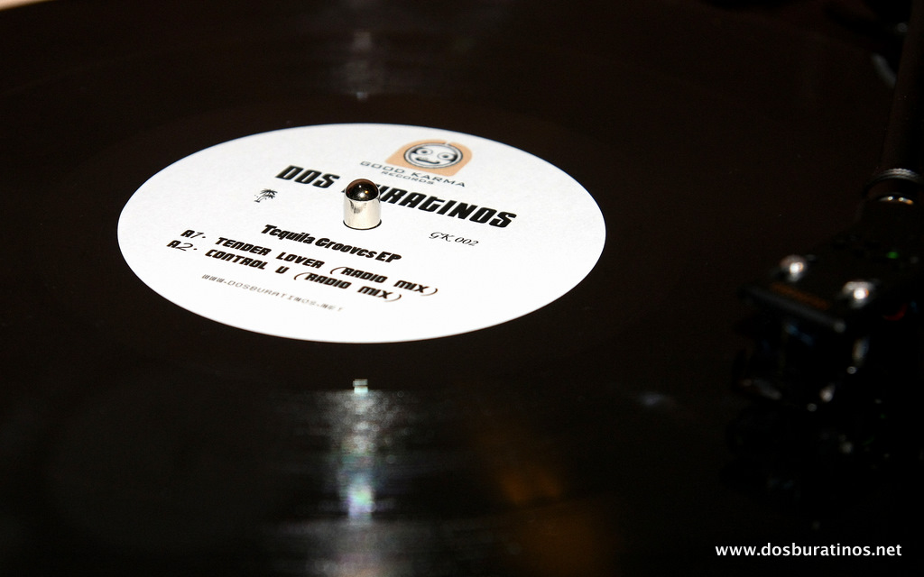 A photo of Dos Buratinos' 'Tequila Grooves EP' dubplate record.